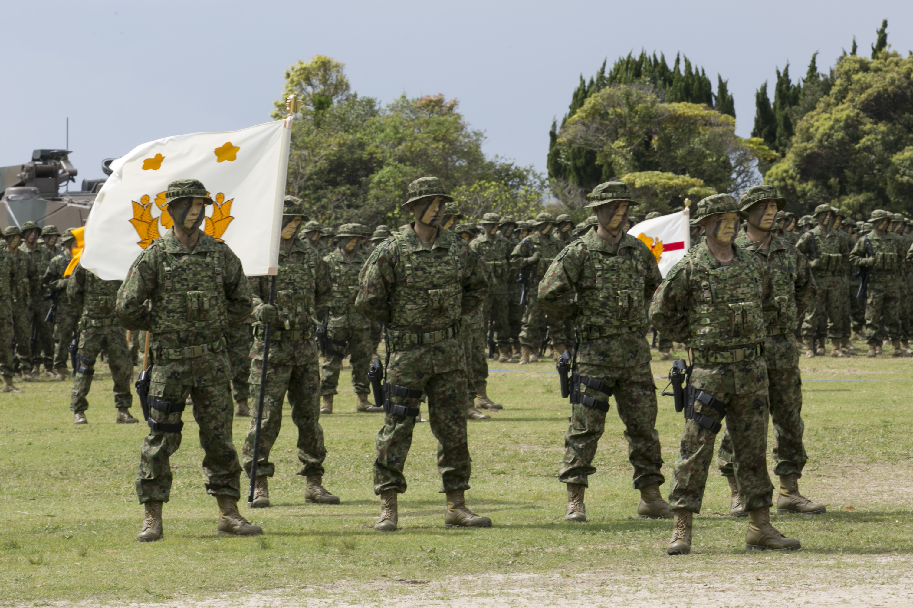 Service members with the Japan Ground Self-Defense Force stand in formation during the Japanese Amphibious Rapid Deployment Brigade’s unit-activation ceremony at Camp Ainoura, Japan, April 7, 2018. The 31st Marine Expeditionary Unit supported the ceremony with a fast rope demonstration from a CH-53E Super Stallion. As the Marine Corps’ only continuously forward-deployed MEU, the 31st MEU provides a flexible force ready to perform a wide range of military operations throughout the Indo-Pacific region.